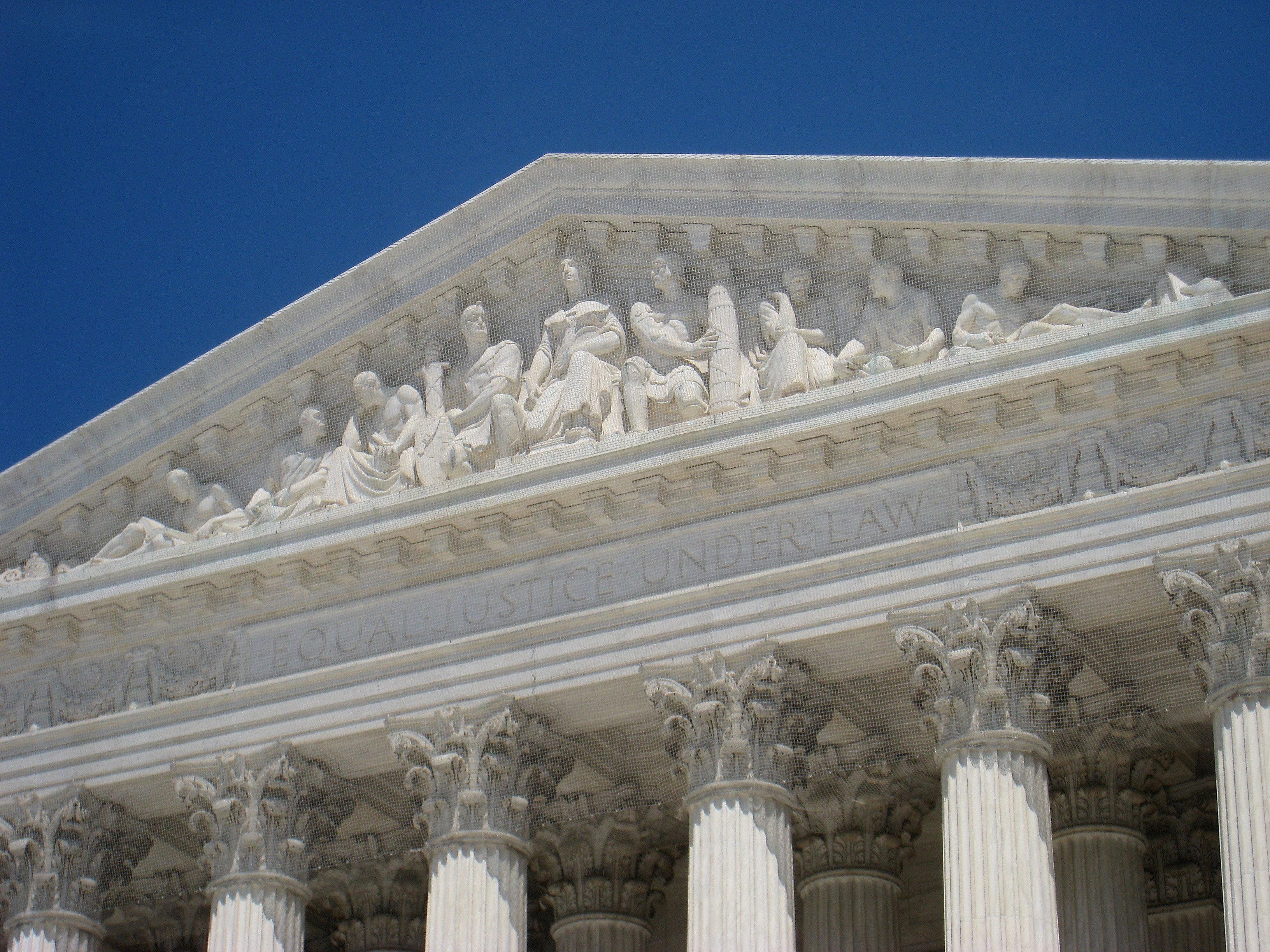 "Liberty Enthroned" by Robert Aitken, US Supreme Court, Washington, DC, USA.